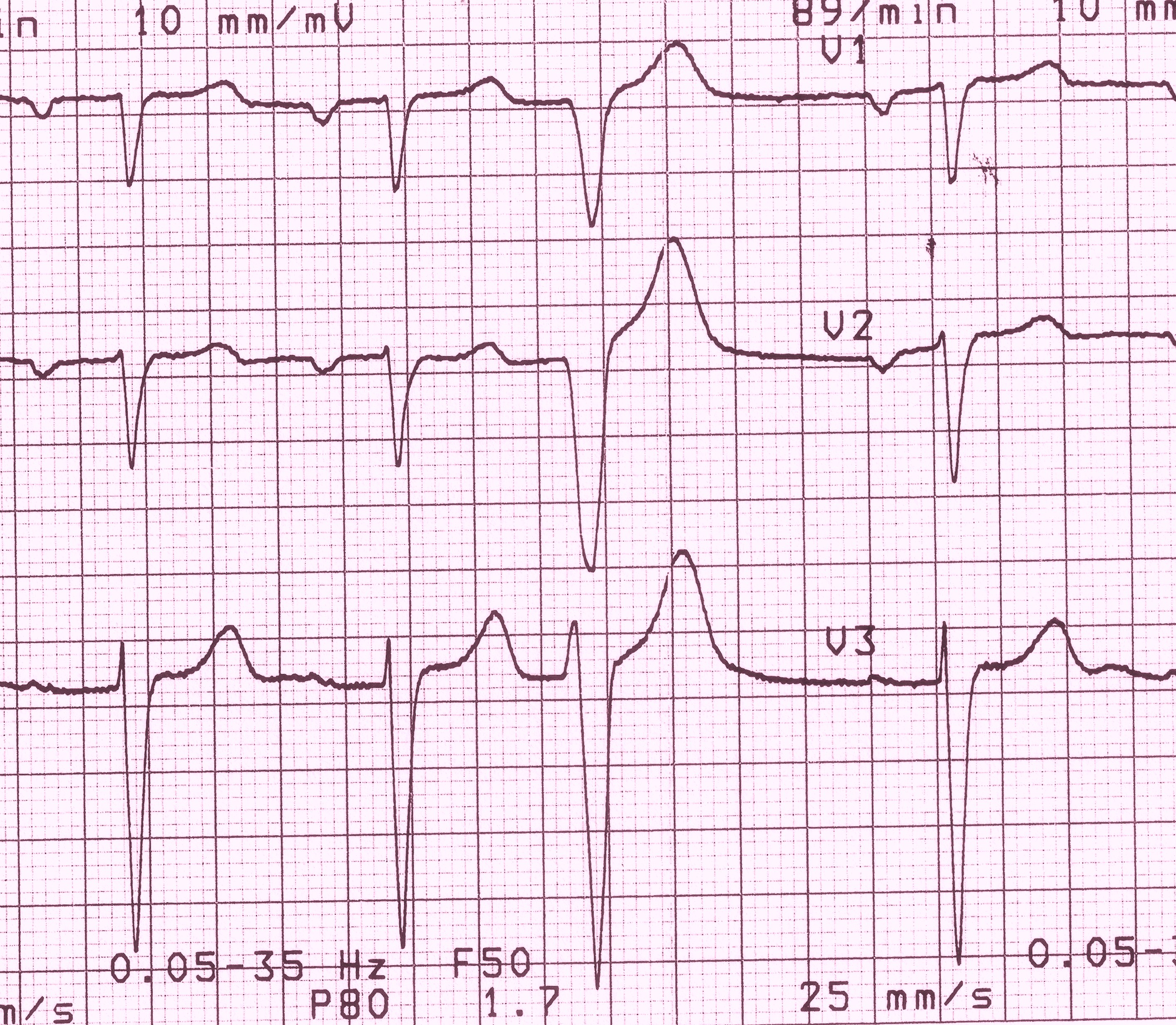 premature heart beats